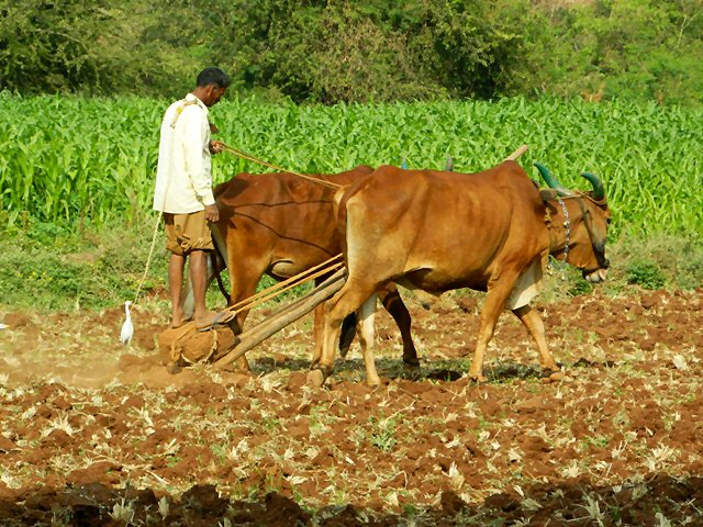 No mechanization of agriculture.